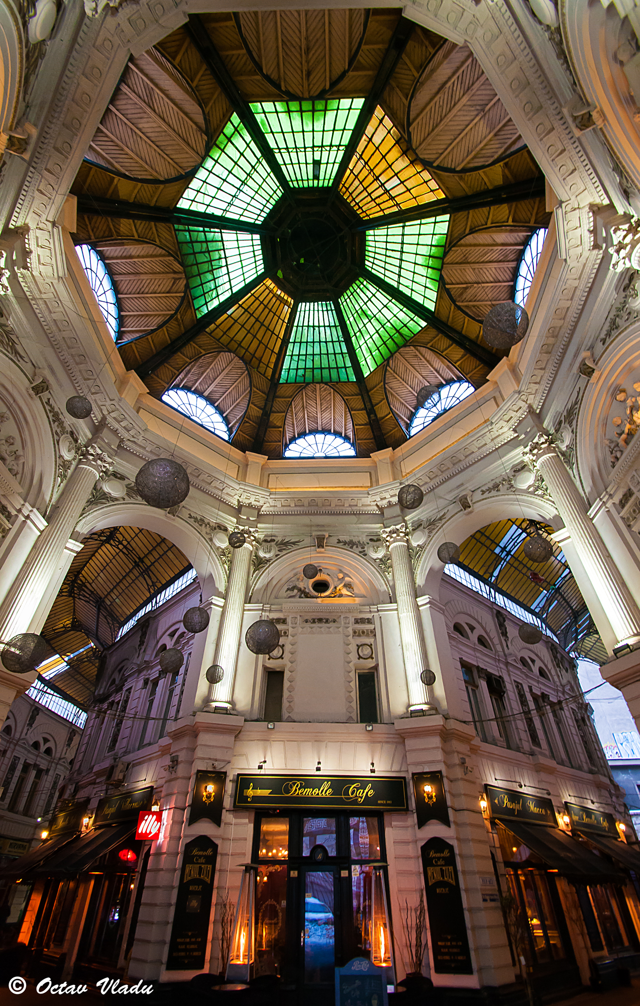 Macca Villacrosse Passage - wide angle capture